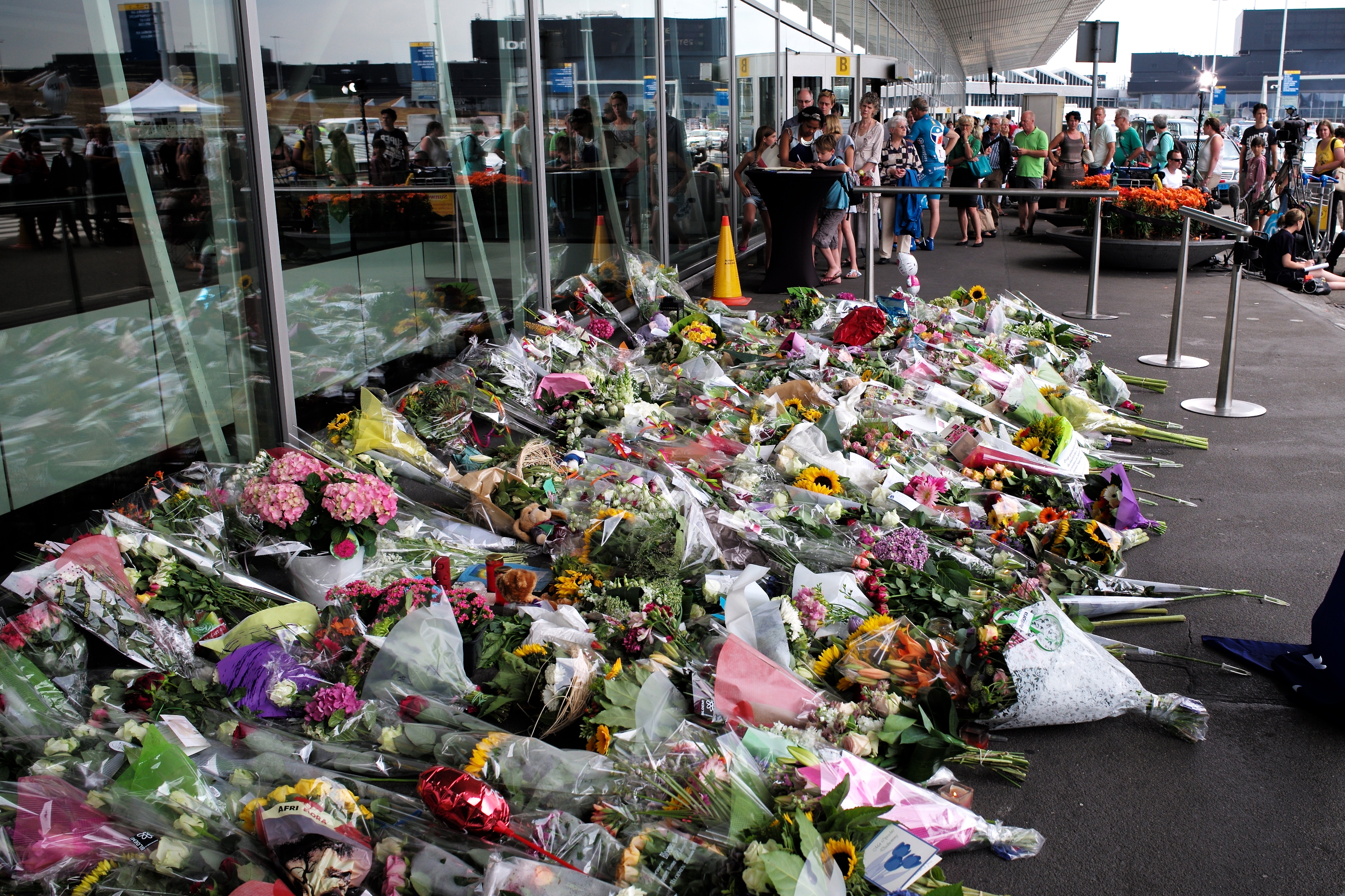 Makeshift memorial at Amsterdam Schiphol Airport for the victims of the Malaysian Airlines flight MH17 which crashed in the Ukraine on 17 July 2014 killing all 298 people on board.